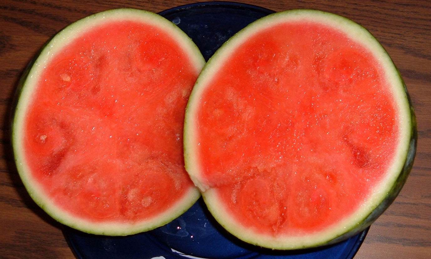 Seedless watermelonPurchased Feb. 2005 in Atlanta, GA, USAThe tag had the following information: mini me (TM) AYACO FARMS PERSONAL SEEDLESS WATERMELON #3421 PRODUCT OF NICARAGUA